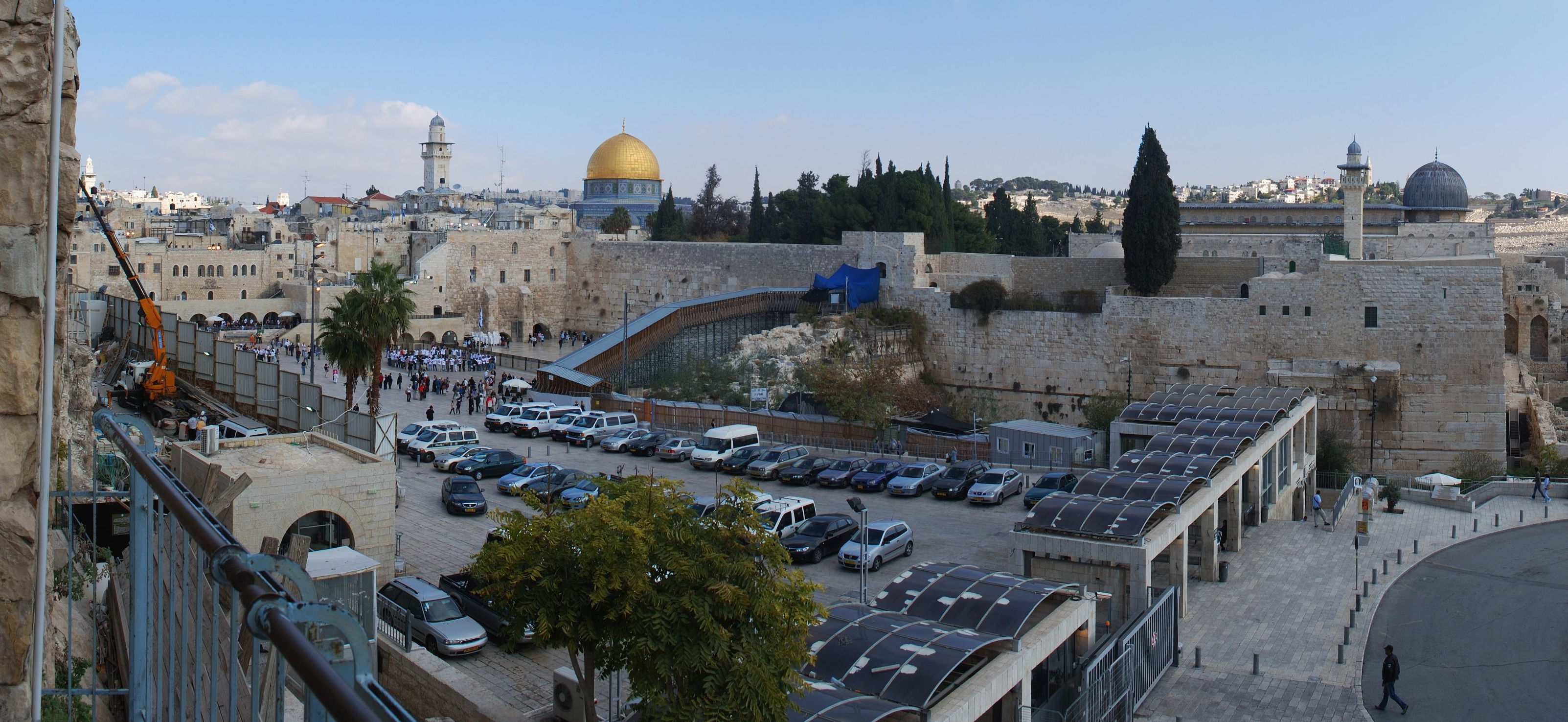 View on the Western Wall in Jerusalem (left part of File:Westernwallpanorama.jpg from Xsteadfastx dated December 4th, 2009)